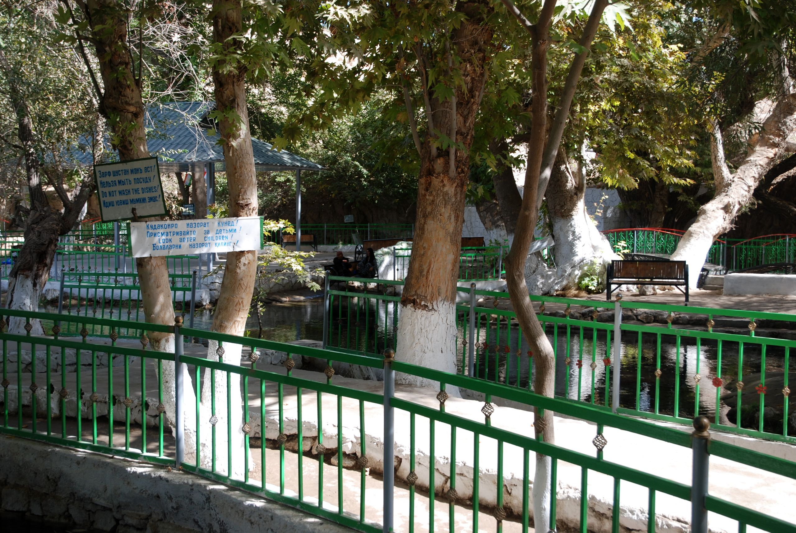 Chilu-chor chashma, "44 springs", near Shahrituz